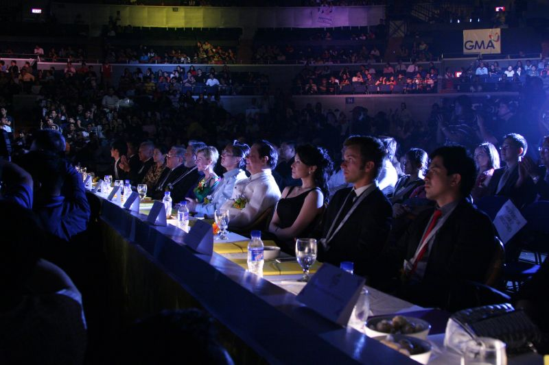 the judges of Binibining Pilipinas 2008.